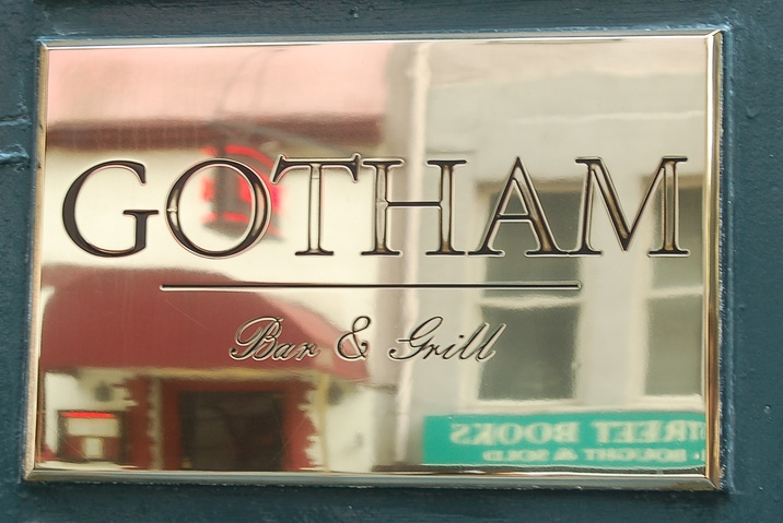 Gotham Bar & Grill on W. 12th St. in New York City